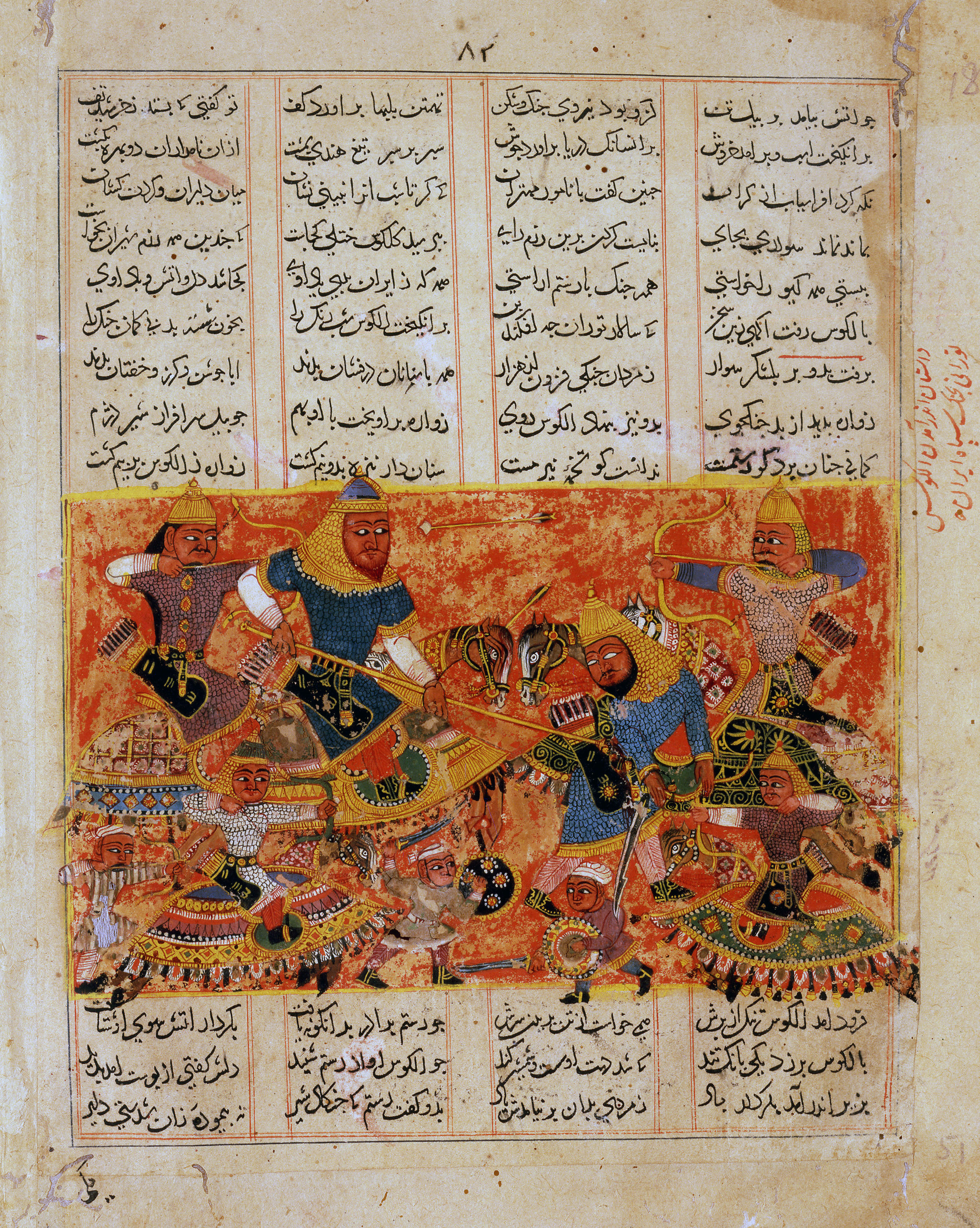 Very little Islamic book painting has been preserved from the sultanate period before the advent of the Mughals in 1526. This miniature comes from a manuscript made by an artist who was highly influenced by Jain art from western India. Both the intense palette and the depiction of figures differ from those found in other Islamic painting. Rustam is portrayed without his customary leopard helmet and tiger caftan. An unusual detail is Alkus, the whites of his eyes showing as he begins his death throes. The hierarchic perspective in which the heroes are largest and figures in front are smaller is also curious.